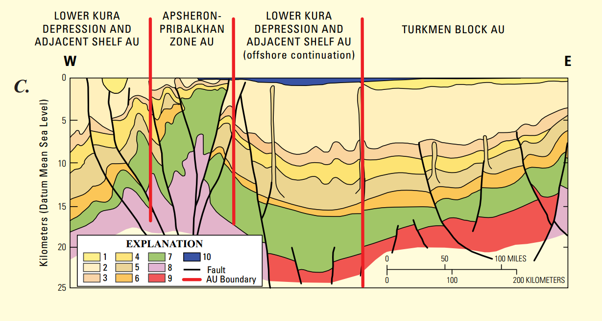 Absheron geologic cross section, where 1-Quaternary, 2-Middle to Upper Pliocene, 3-Lower Pliocene, 4-Miocene, 5-Oligocene to Miocene (Maykop Formation), 6-Paleocene to Eocene, 7-Mesozoic, 8-Basement, continental crust, 9-Basement, oceanic crust, 10-Caspian Sea water